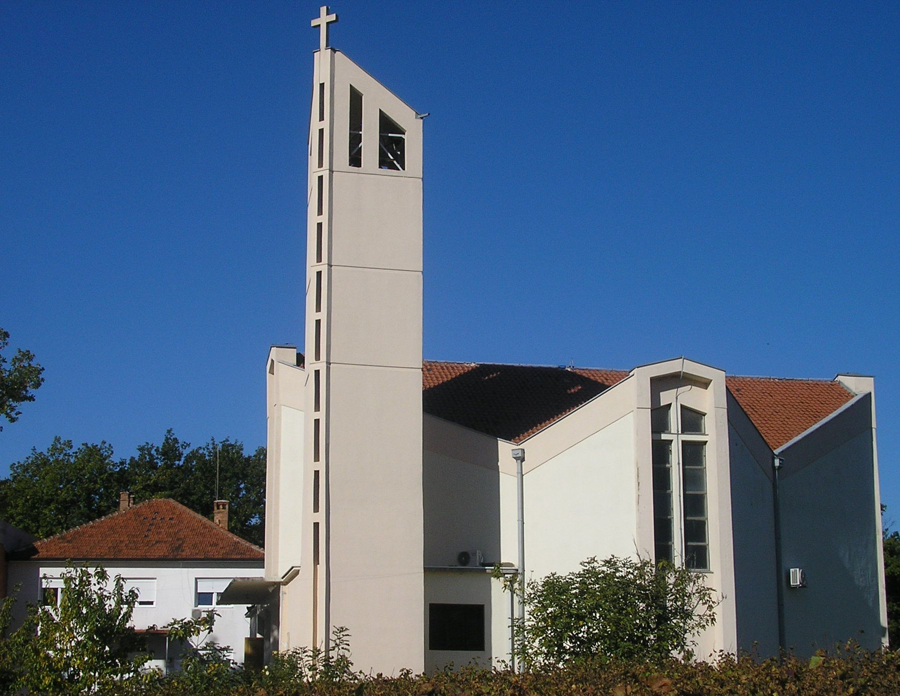 St. Joseph church, Domanovići (Čapljina)), BiH